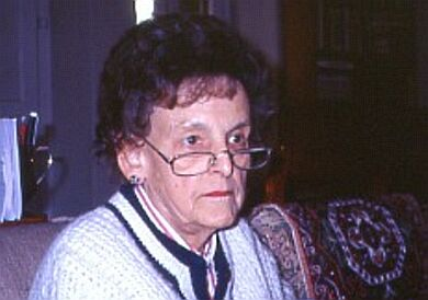 Elizabeth Hawley